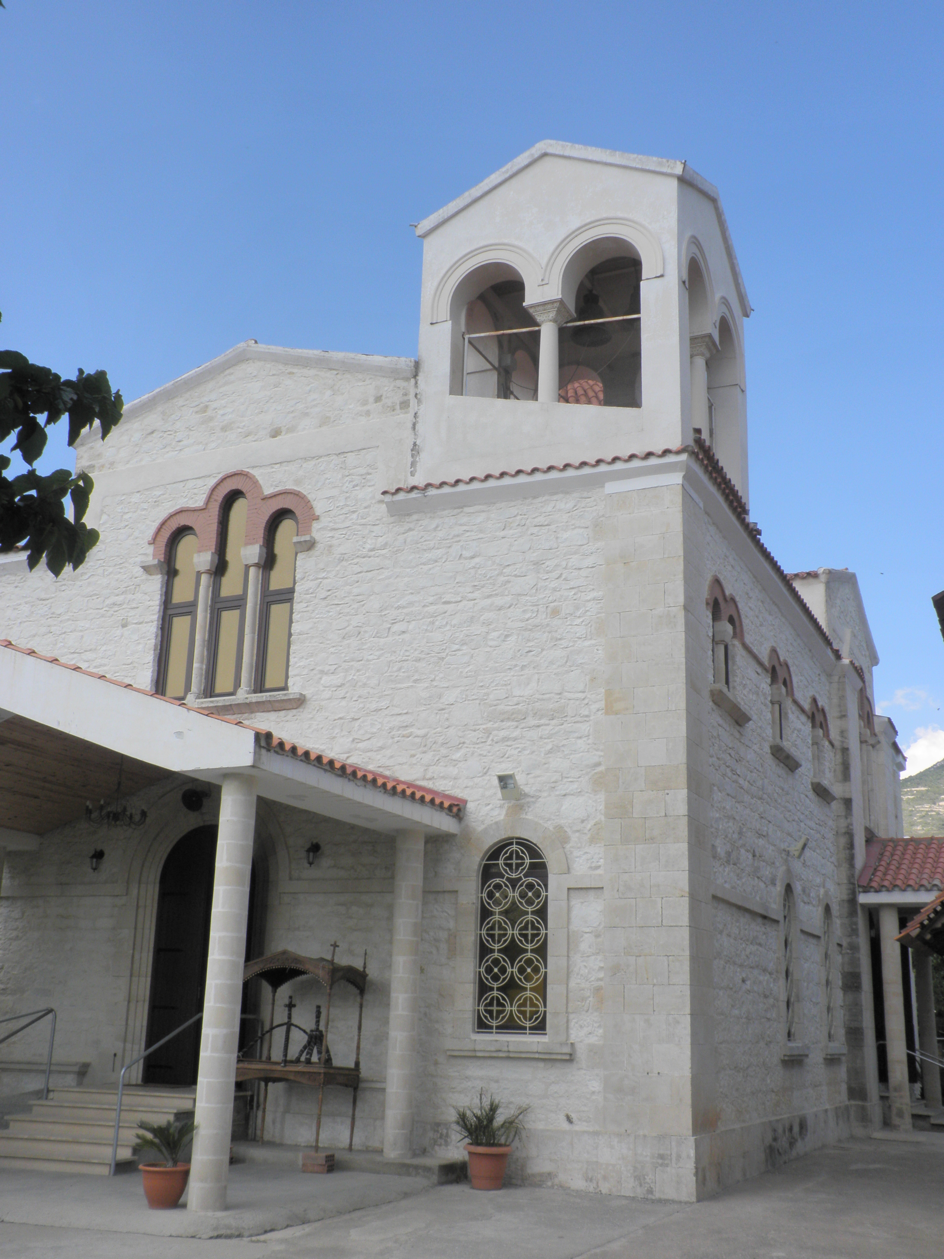 Holy Temple of Panayias Eleousis in Trimiklini